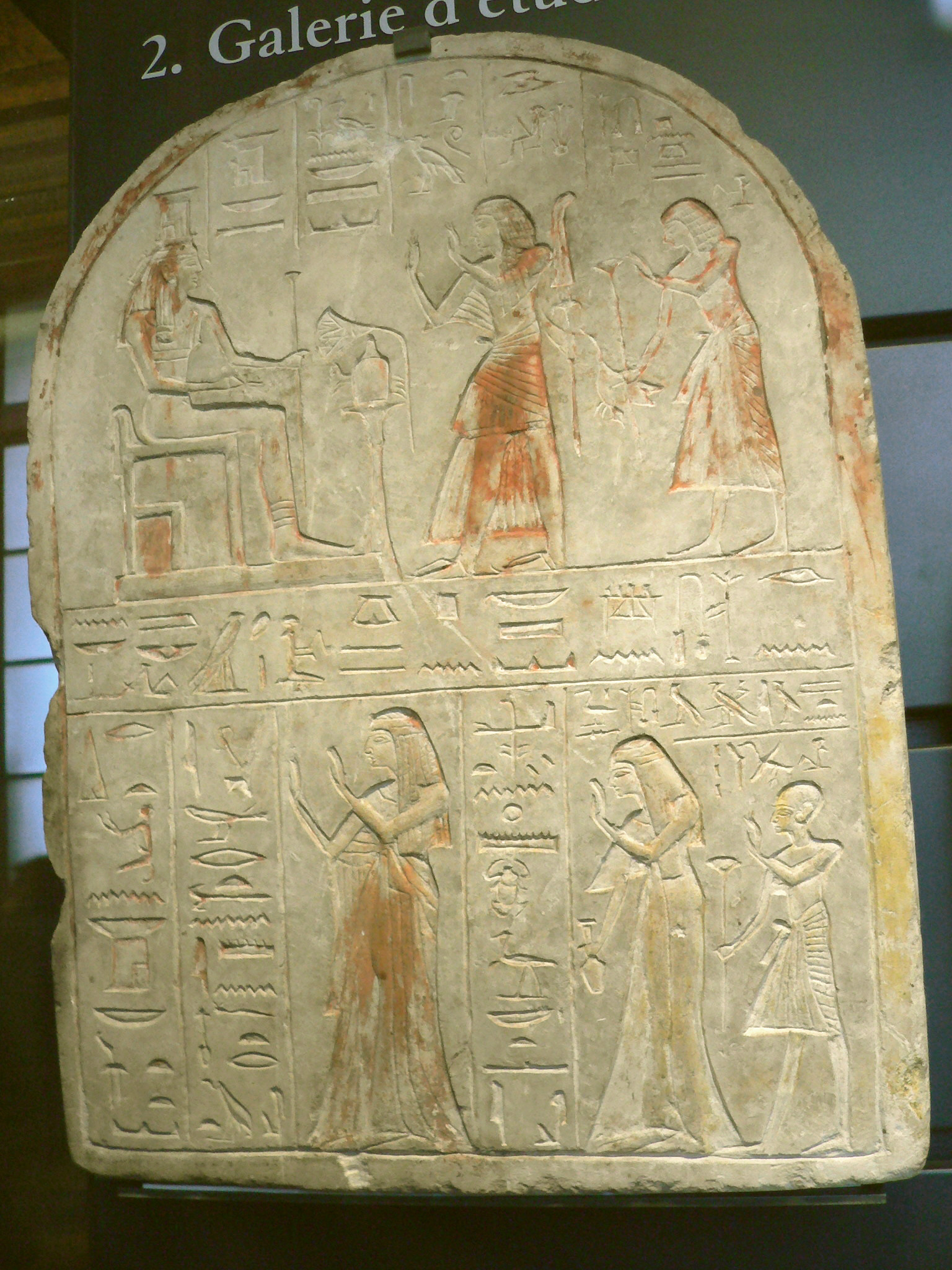 Stèle de Sétaou, gouverneur de Nubie, v. 1250 av. J.-C. (XIX° dyn.), Calcaire. Stela of Setau, Viceroy of Kush during the reign of Ramesses II. In upper register, Setau and Pennesuttawy son of Horemheb, scribe of the altar of Kush worshipping Nephthys. In the lower register: Nefertmut, Chief of the Harem of Amun (wife of Setau), Baketi, Singer of Menkheperre (presumably wife of Pennesuttawy) and her son, the scribe Maiemtjeni.